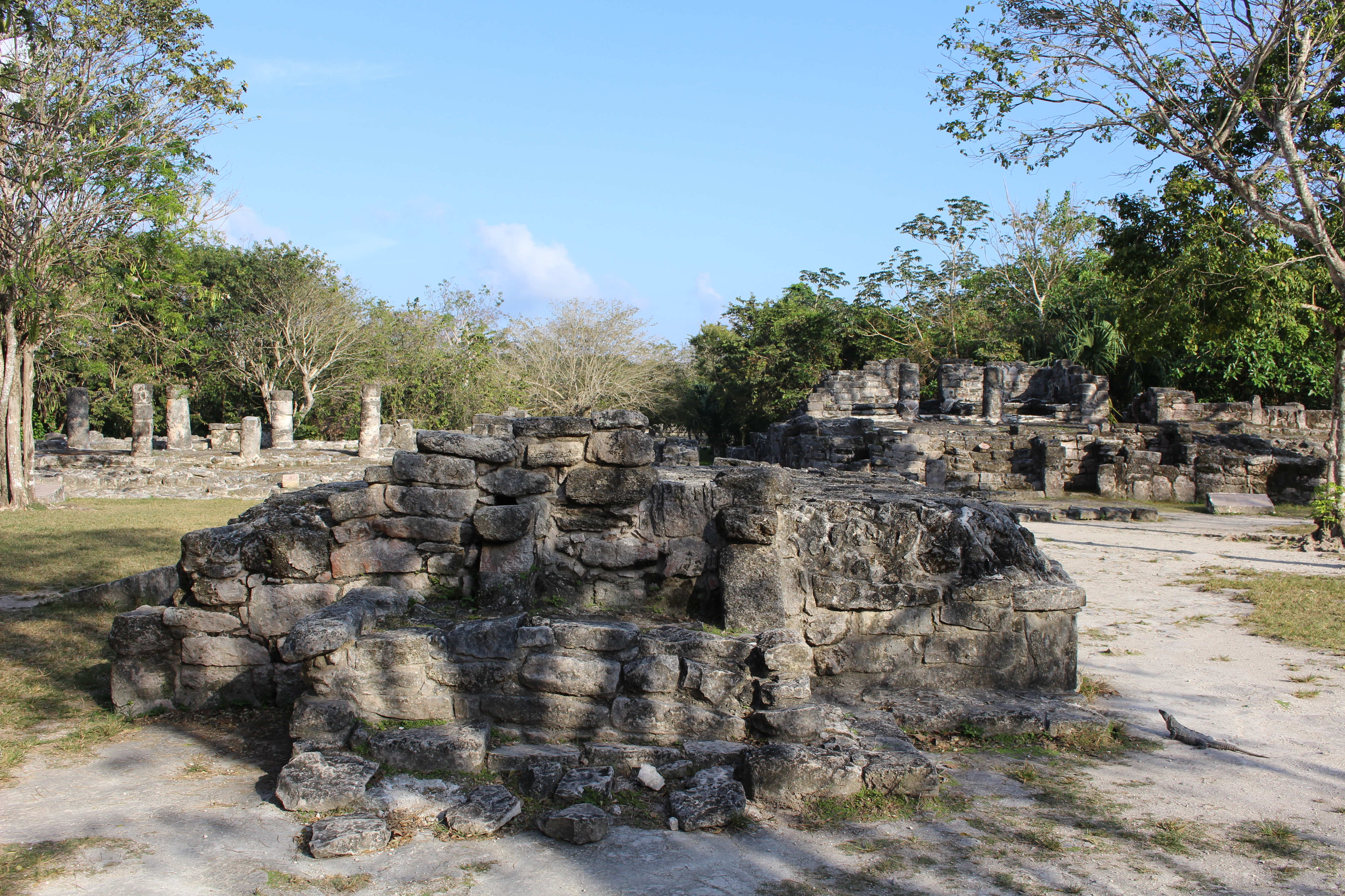 "The Altar" on the central plaza, at San Gervasio, Cozumel, Mexico. In the background, one can see Las Columnas ("the Columns") on the left, and Los Nichos ("the Niches")on the right. In the front right, an iguana is facing the structure.